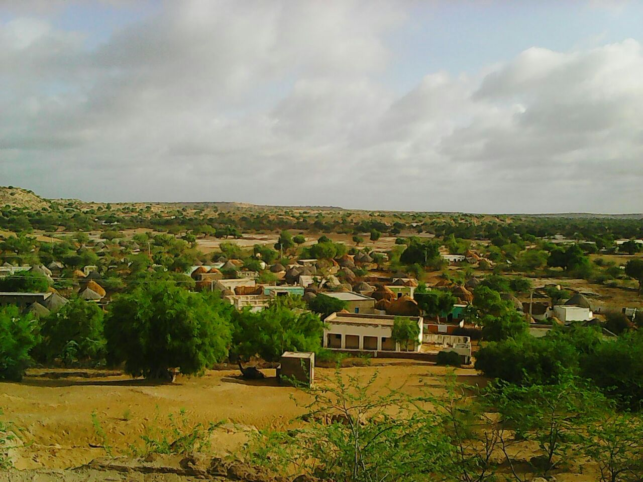 This is a picture of village Kertee captured by Gumansingh Sodha on Janmashtami, showing complete village, houses, schools,ground etc.